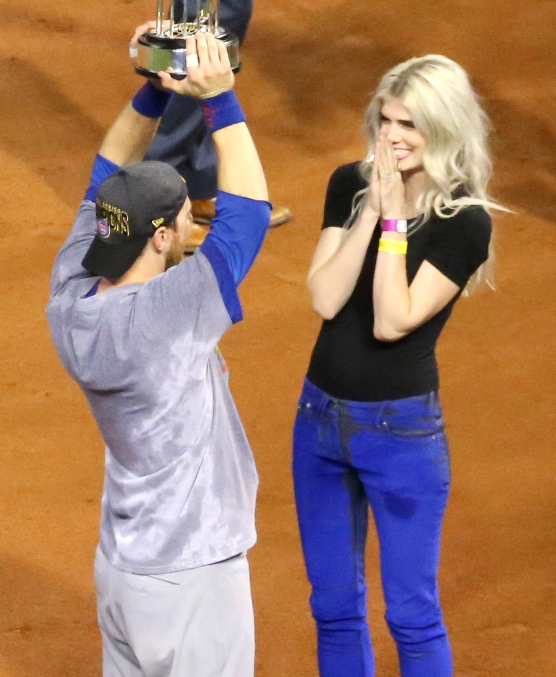 World Series MVP Ben Zobrist, his wife Julianna and his new 50th anniversary Chevy Camaro.